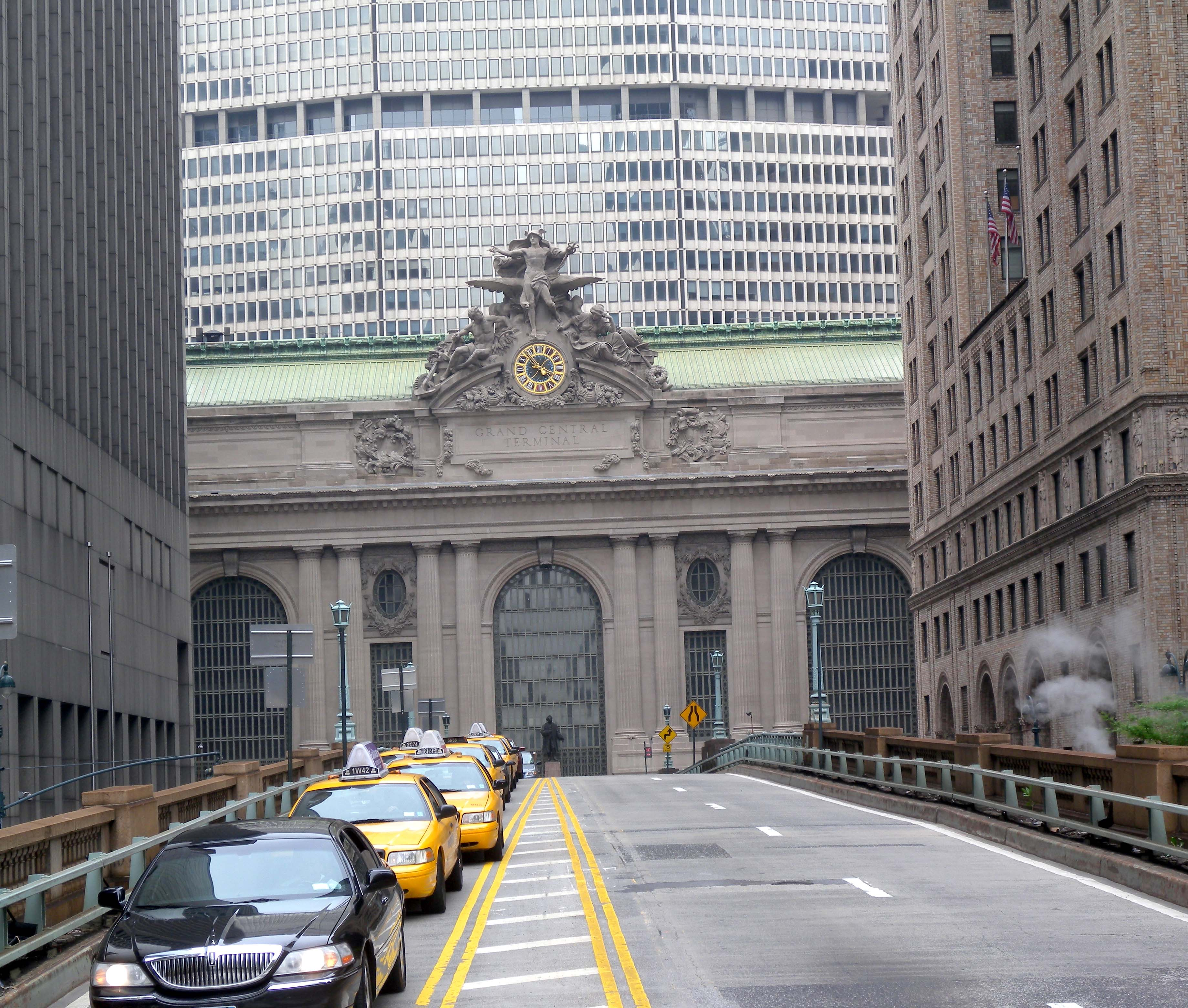 Looking north from 40th Street up the Park Avenue Viaduct at Grand Central Terminal and Metlife Building on a cloudy afternoon.